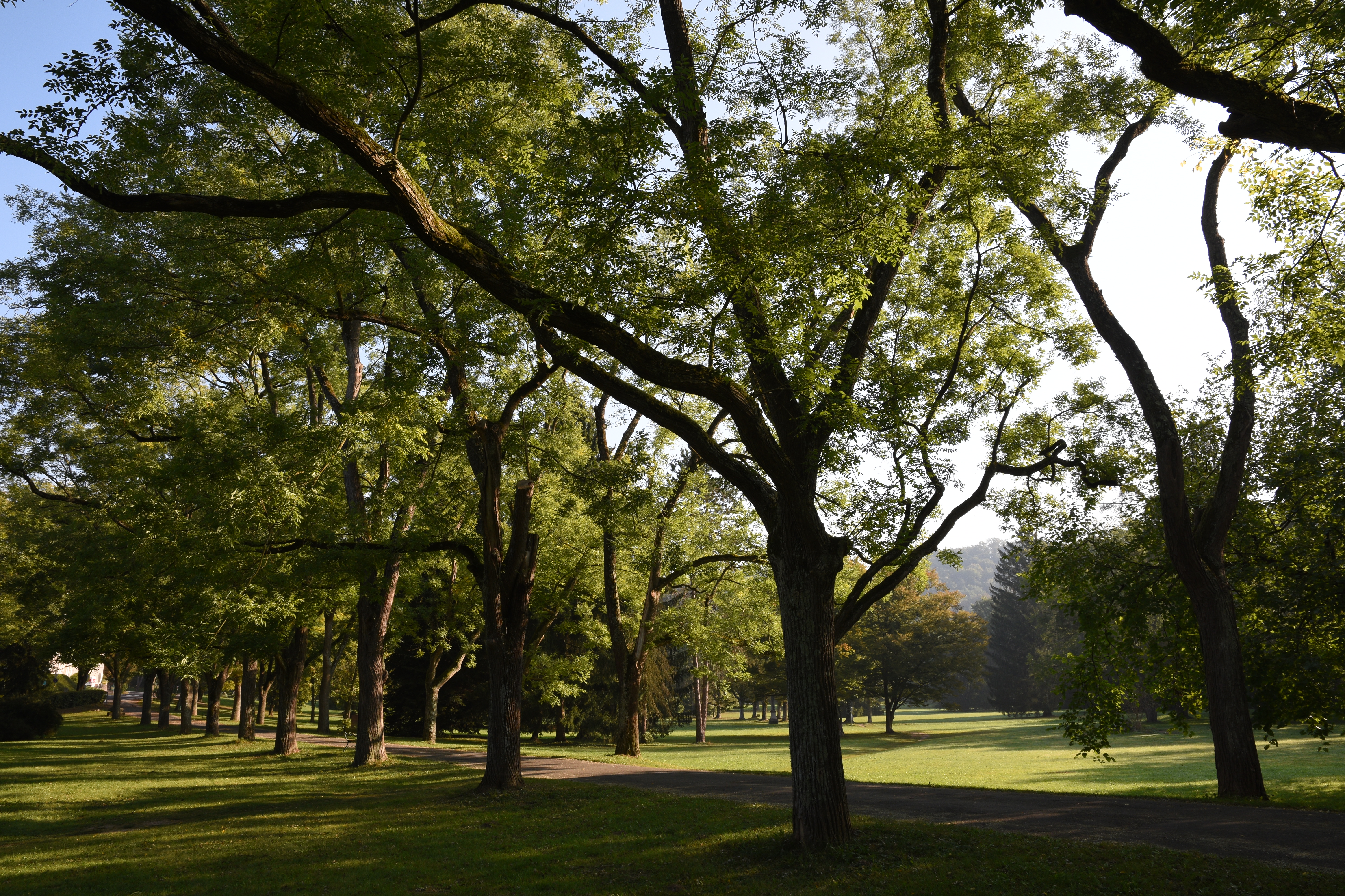 Park Bad Gleichenberg